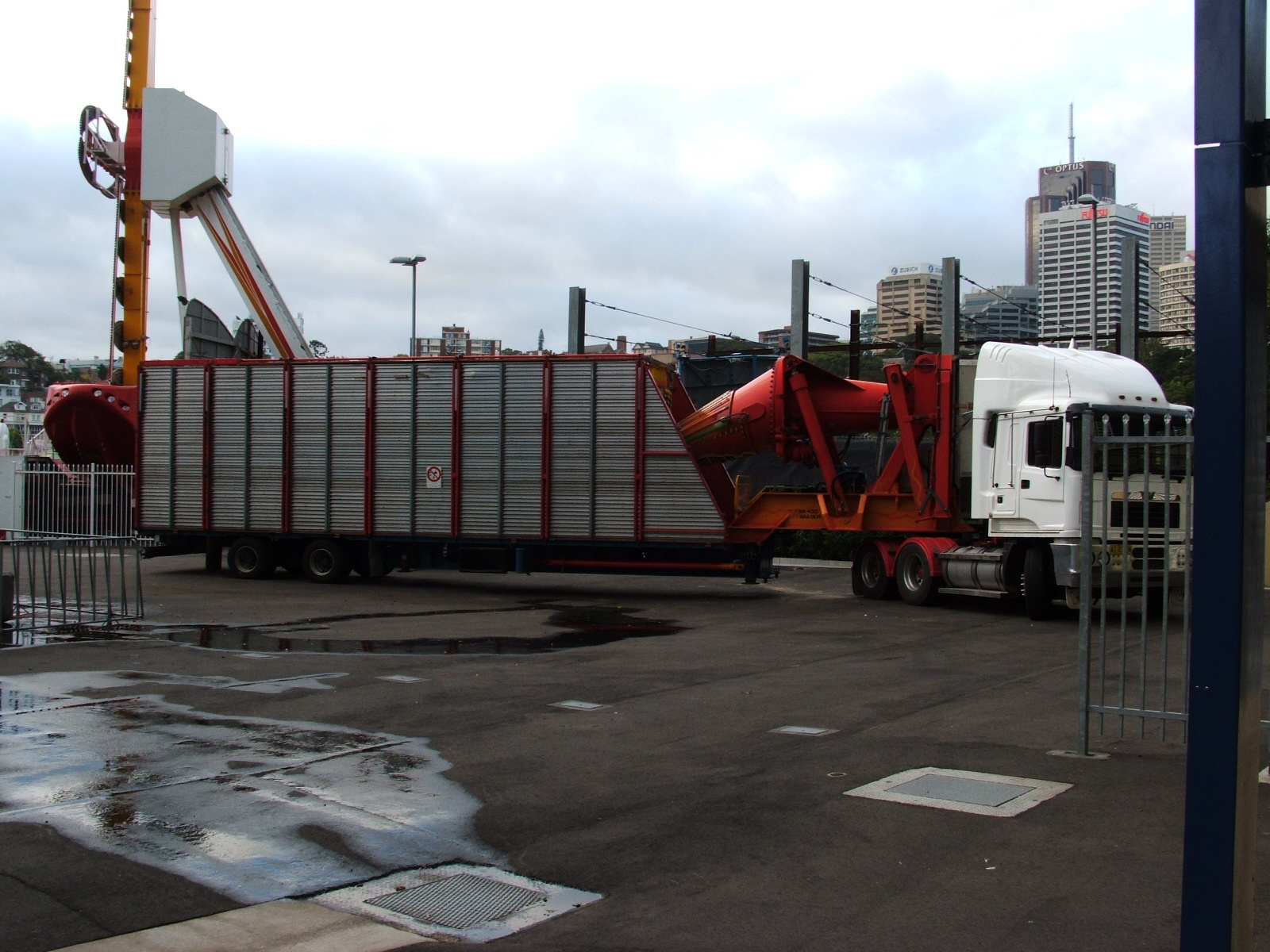 A Power Surge amusement ride in the racked or transportable position